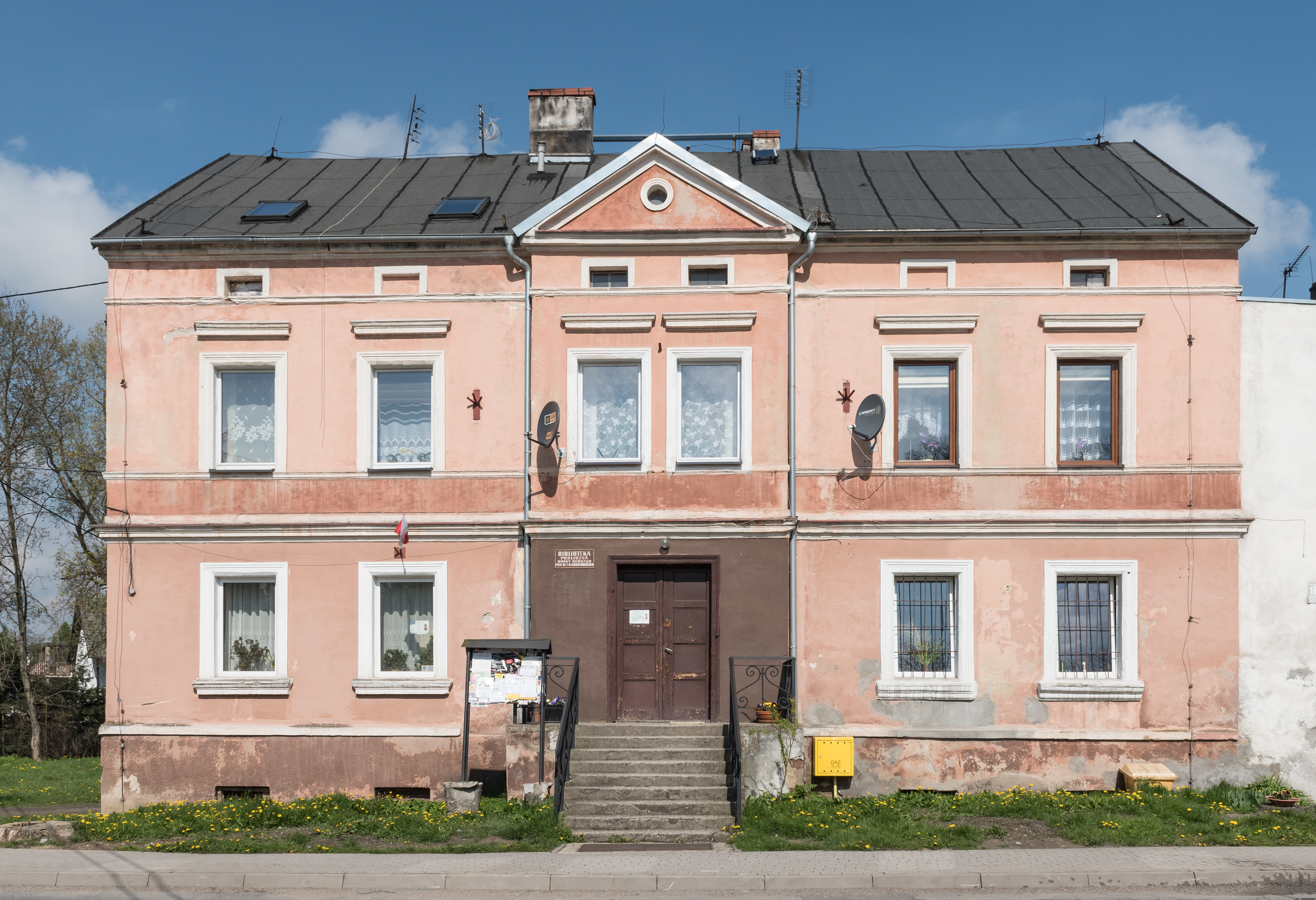 Library in Krosnowice